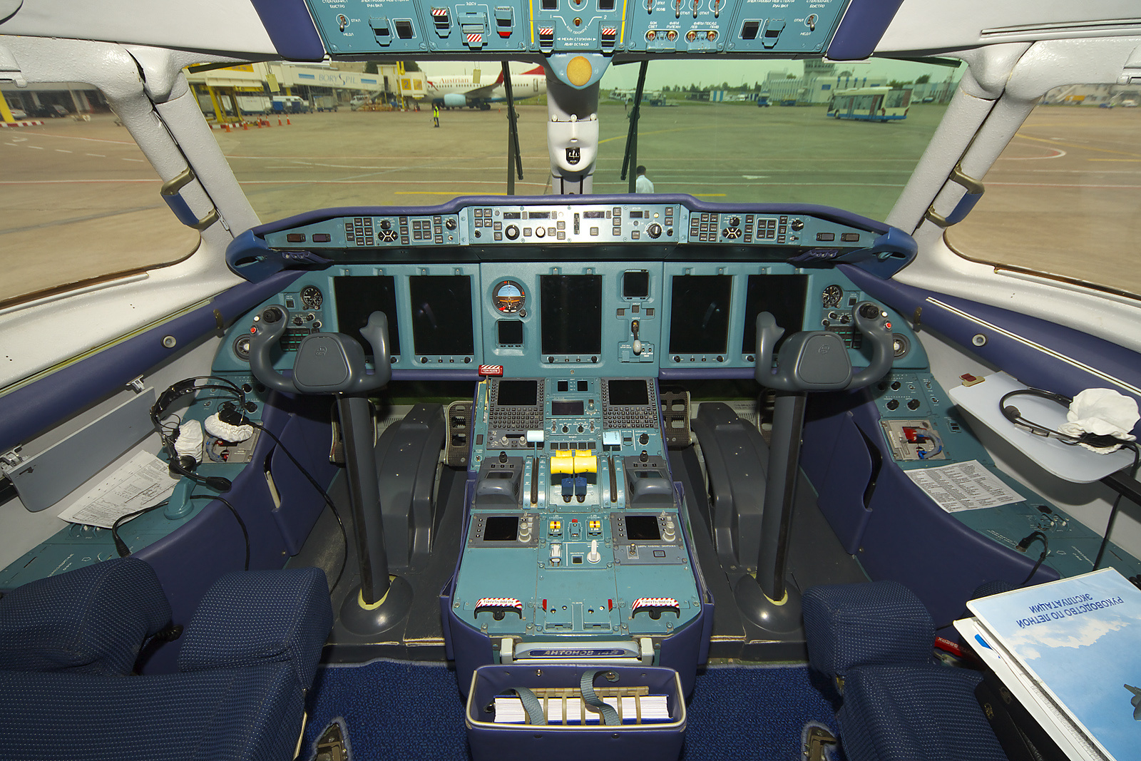 AeroSvit An-148 UR-NTA at Kiev - Borispol, just before the first commercial flight on 2 June 2009.